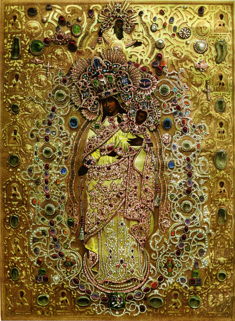 Lithograph of 1862 with the image of an icon of tsarevna Natalia